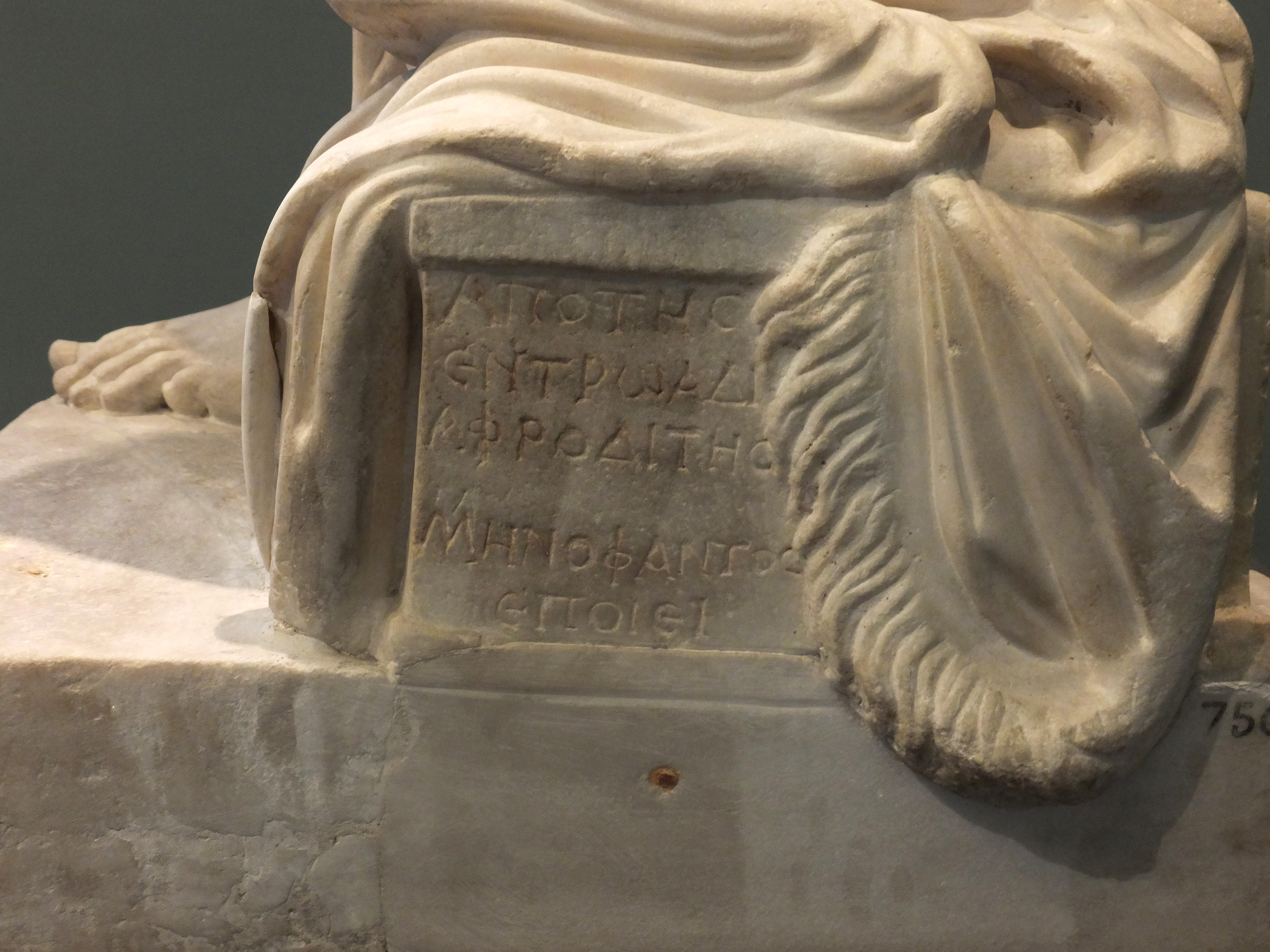 Museo Nazionale Romano - Palazzo Massimo alle Terme Signature of the scupltor on the base of the statue of Venus/Aphrodite IGUR 4.1577 ἀπὸ τῆc / ἐν Τρῳάδι / Ἀφροδίτηc / Μηνόφαντοc / ἐποίει Menophantos made [this] after the Aphrodite in the Troiad.